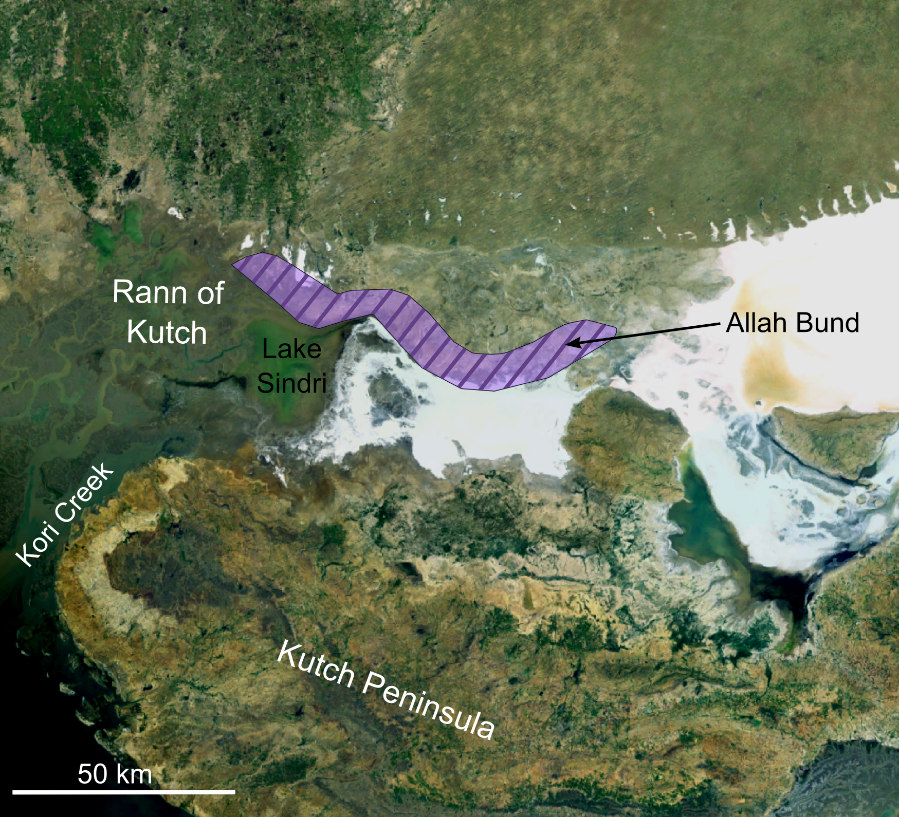 Features associated with the 1819 Rann of Kachcch earthquake on a base of a screenshot from the Nasa WorldWind software